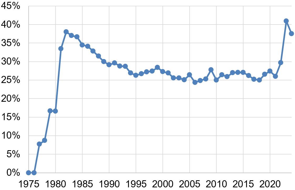 Share of nuclear power of Finland's electricity consumption, 1975–2018. Data source: Statistics Finland